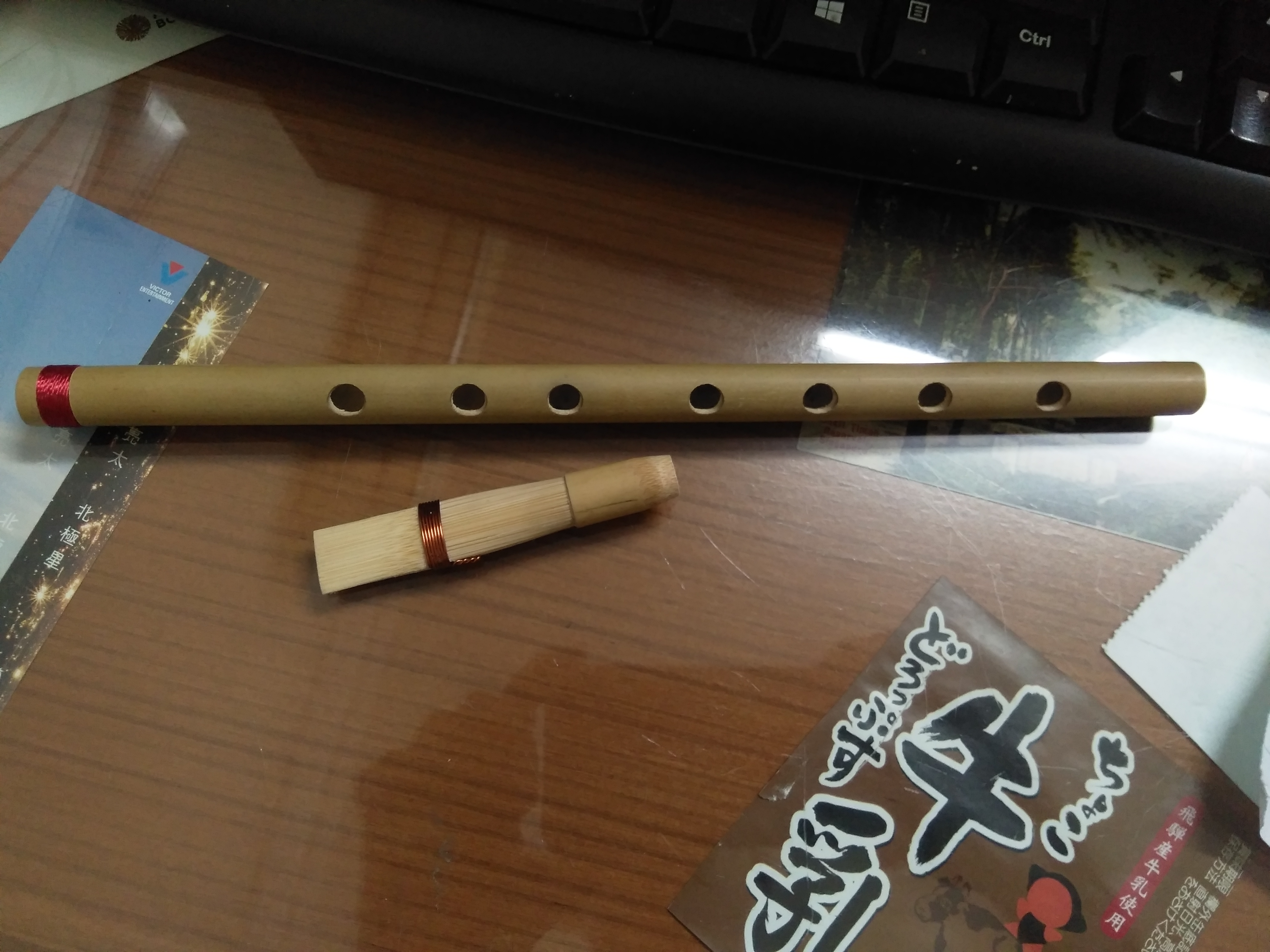 Se-piri, Korean flute made of bamboo